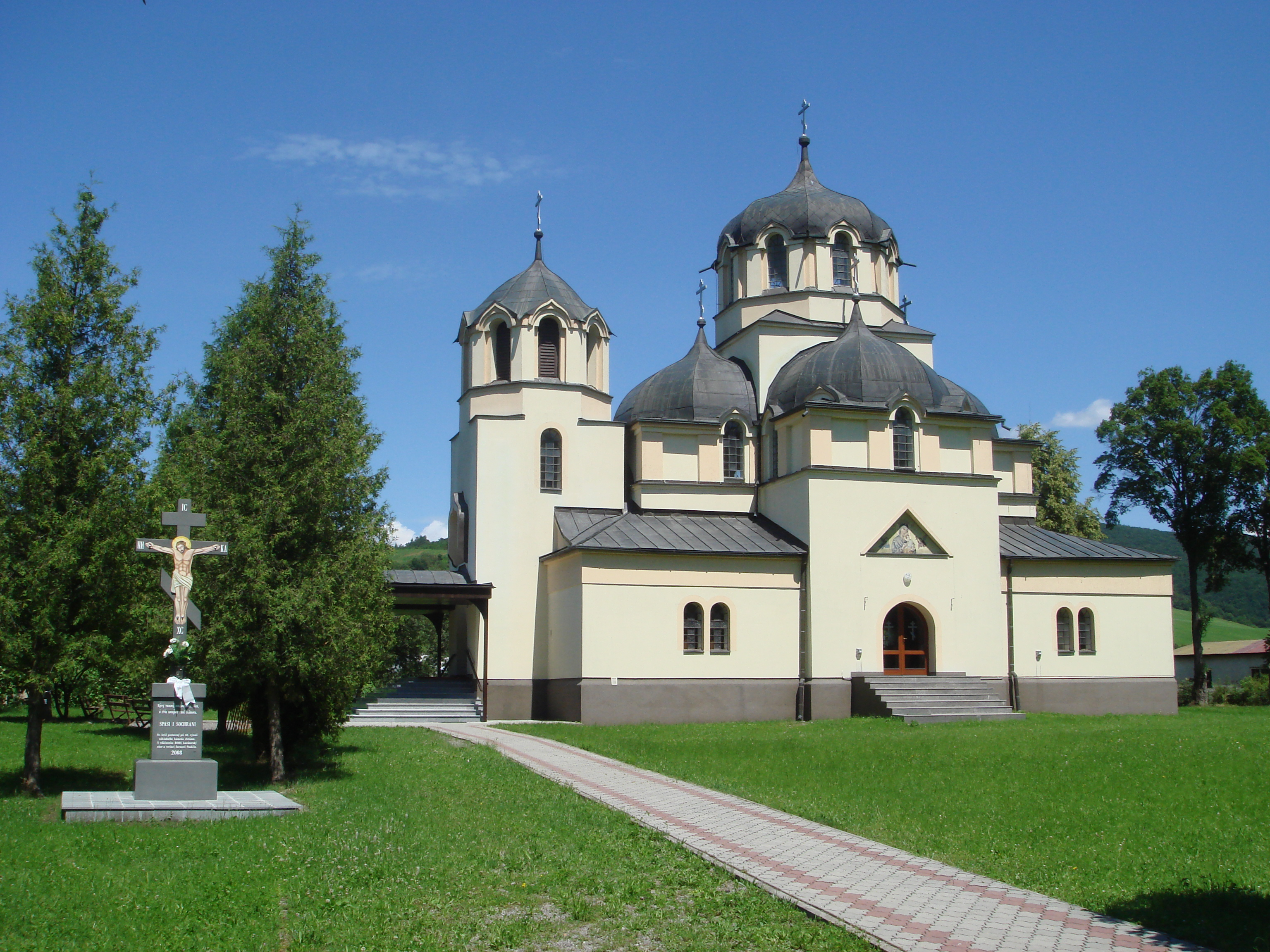 Orthodox church of the Holy Trinity in Stakčín (Prešov Region, Slovakia).